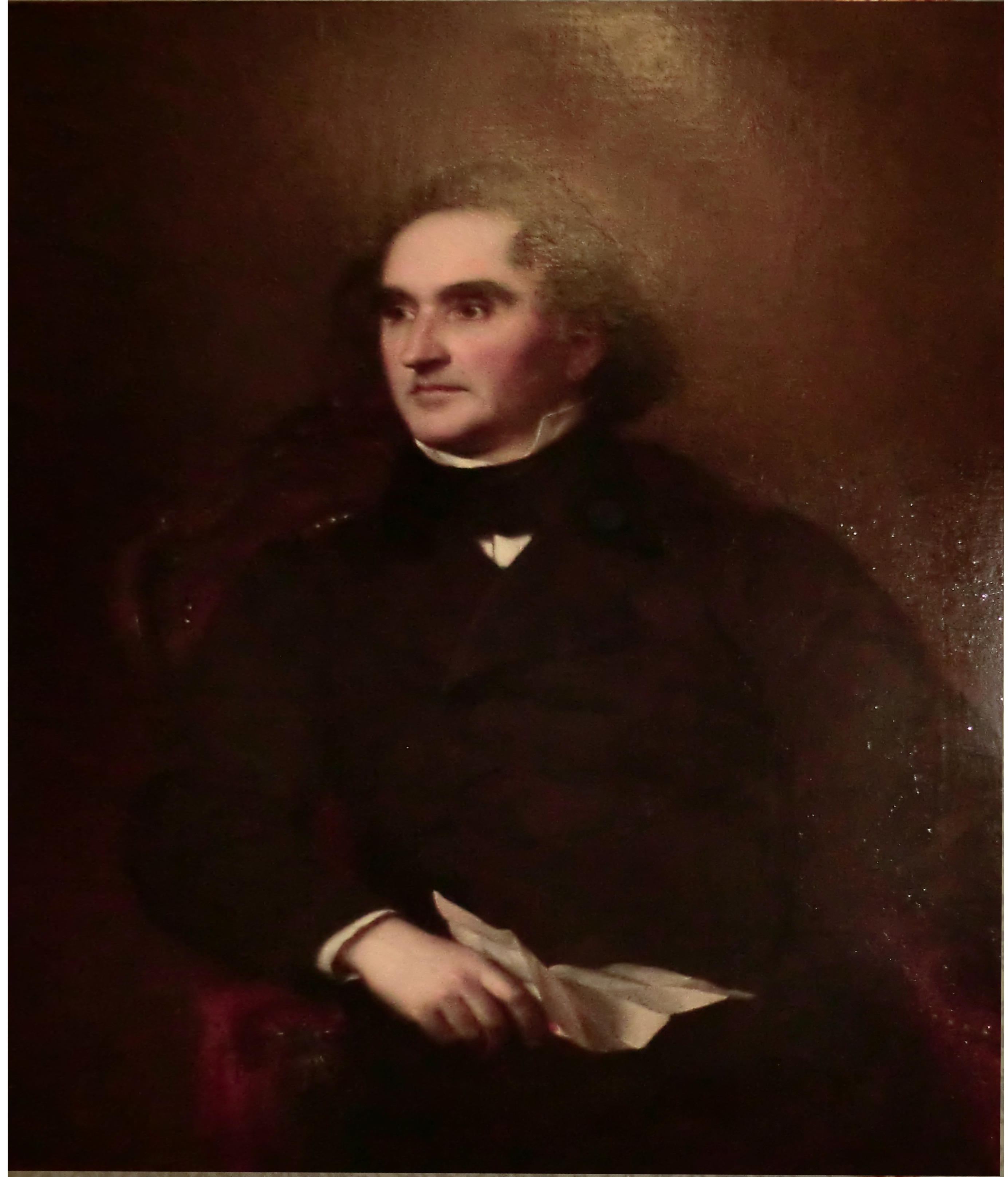 Portrait of Baron Justus von Liebig attribuited to William Trautschold